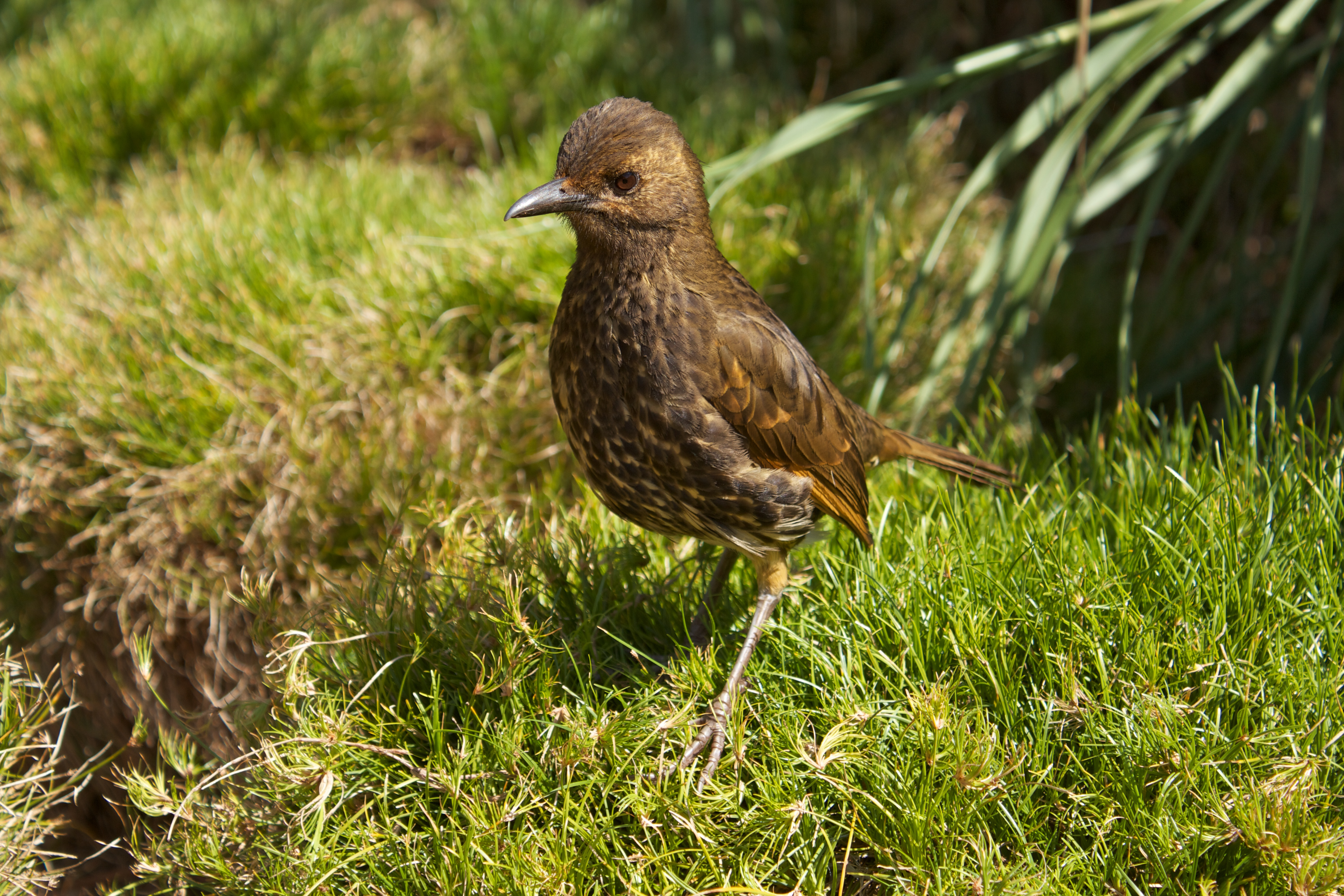 Tristan Thrush on Nightingale Island